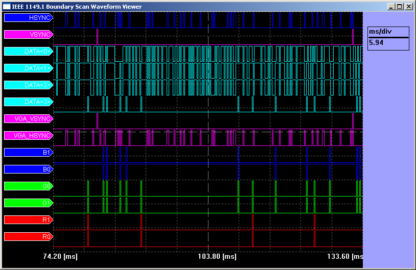 PC (JTAG) Logic analyzer